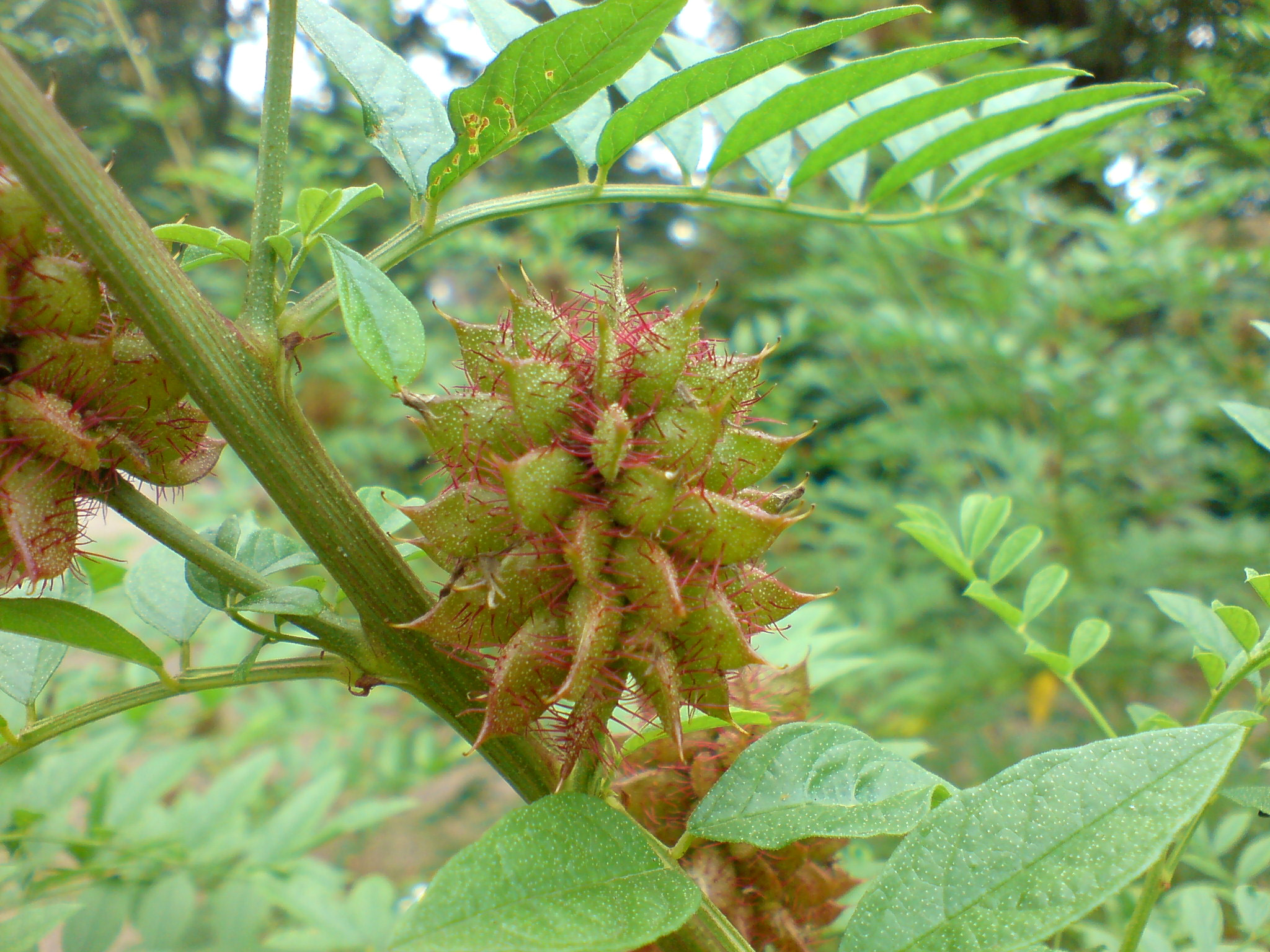 Glycyrrhiza echinata - Botanical Garden Bremen